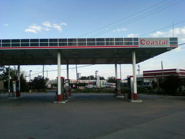 A former Coastal brand gas station, which was more recently another brand, but after closing, canopy was stripped revealing original signage.